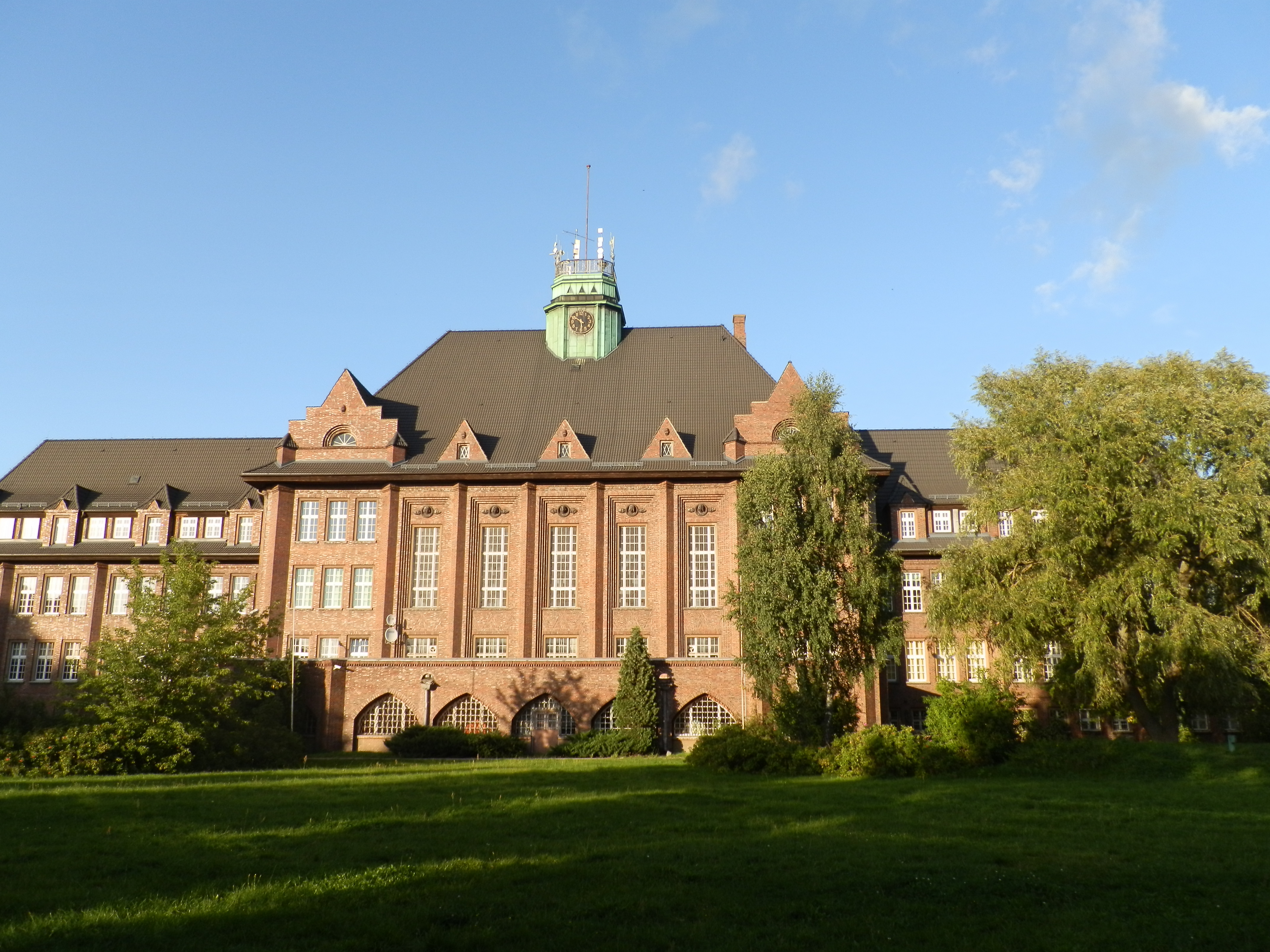 High School building in Lębork